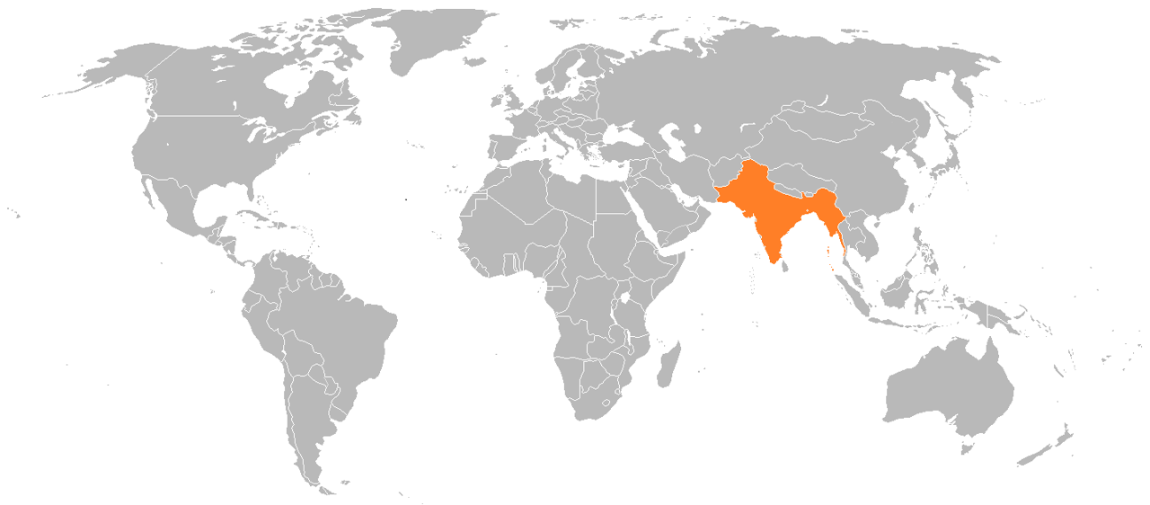 British Indian empire in 1936.